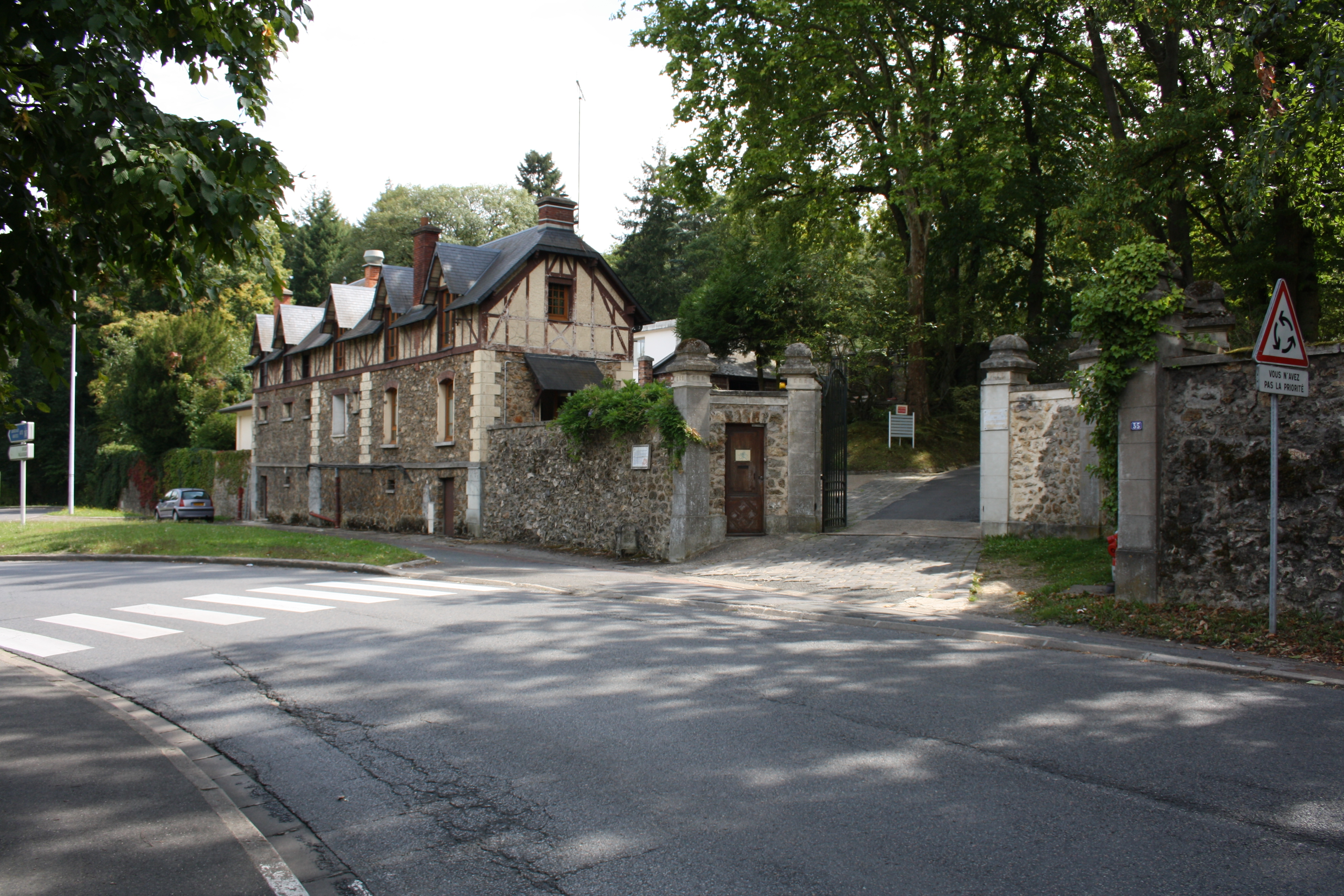 View of Bures-sur-Yvette, France.